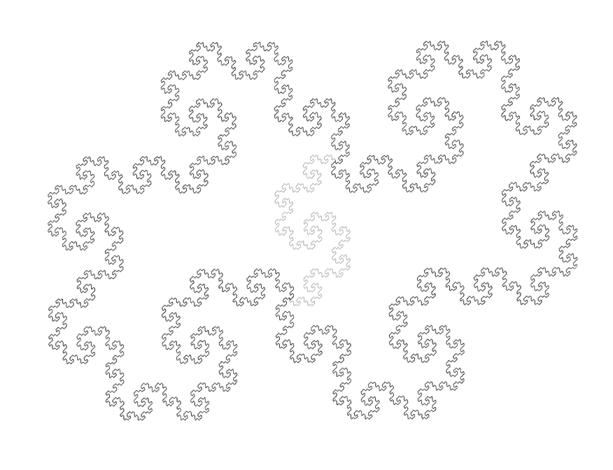 TwinDragon fractal. Result of two similitudes of ratio 2 / 2 {\displaystyle \scriptstyle \sqrt {2 /2 . Can be built with two Heighway dragons and its boundary has the same Hausdorff dimension. Also one of the six 2-reptiles of the plane (can be tiled by two copies of itself, of the same size).